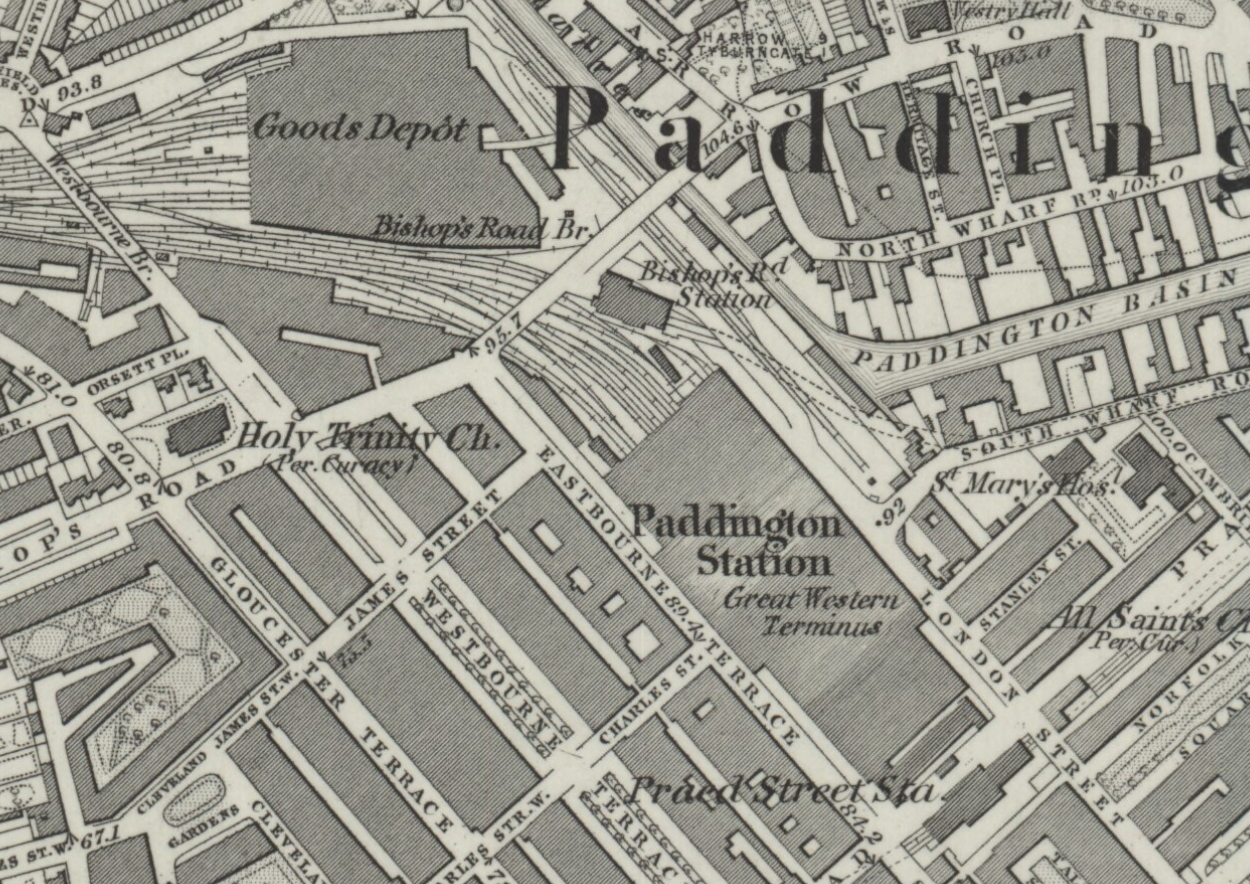 Paddington mainline station and the two Metropolitan Railway stations (Bishop's Road) and (Praed Street) on an 1874 Ordnance Survey map.